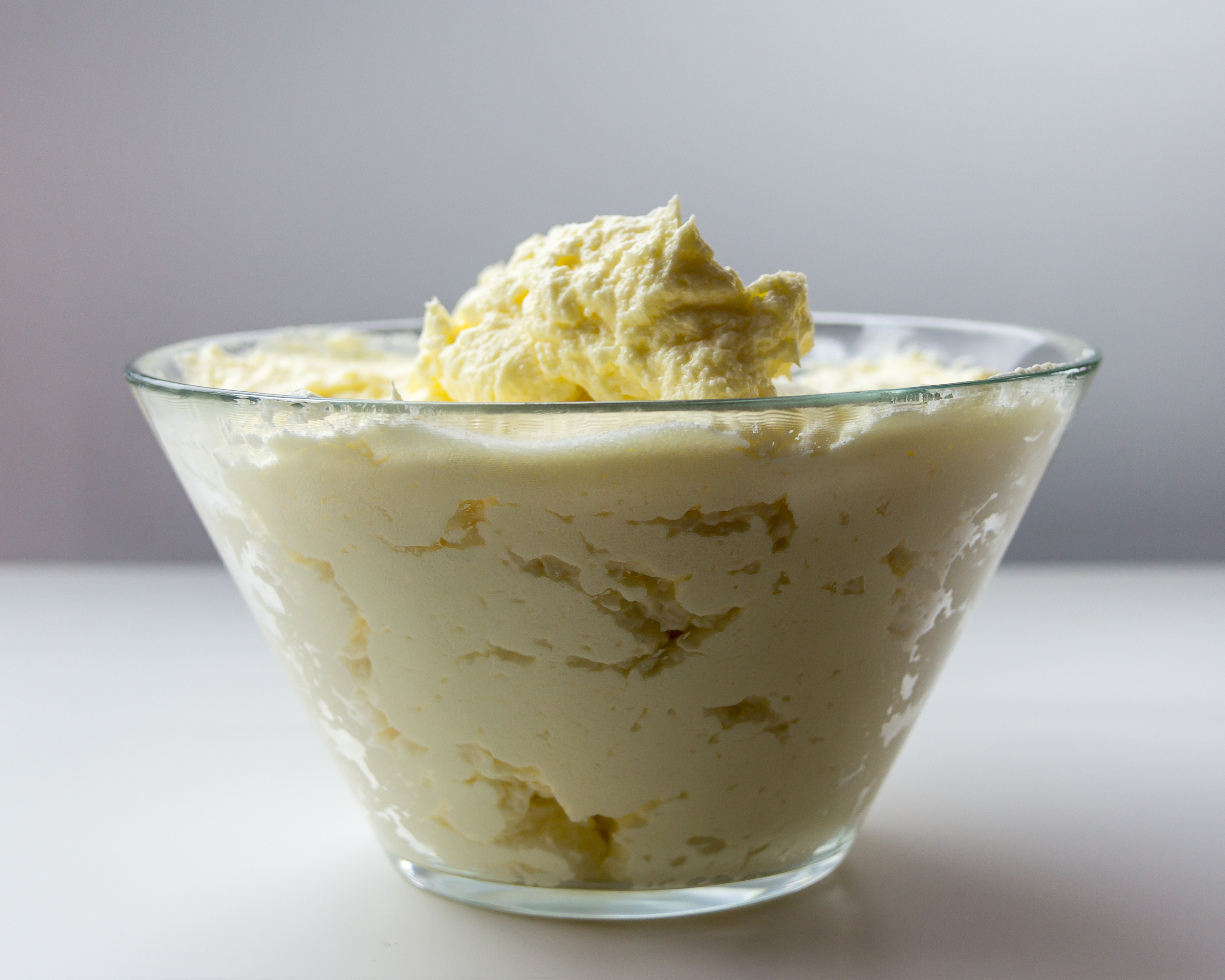 Buttercream in a glass bowl